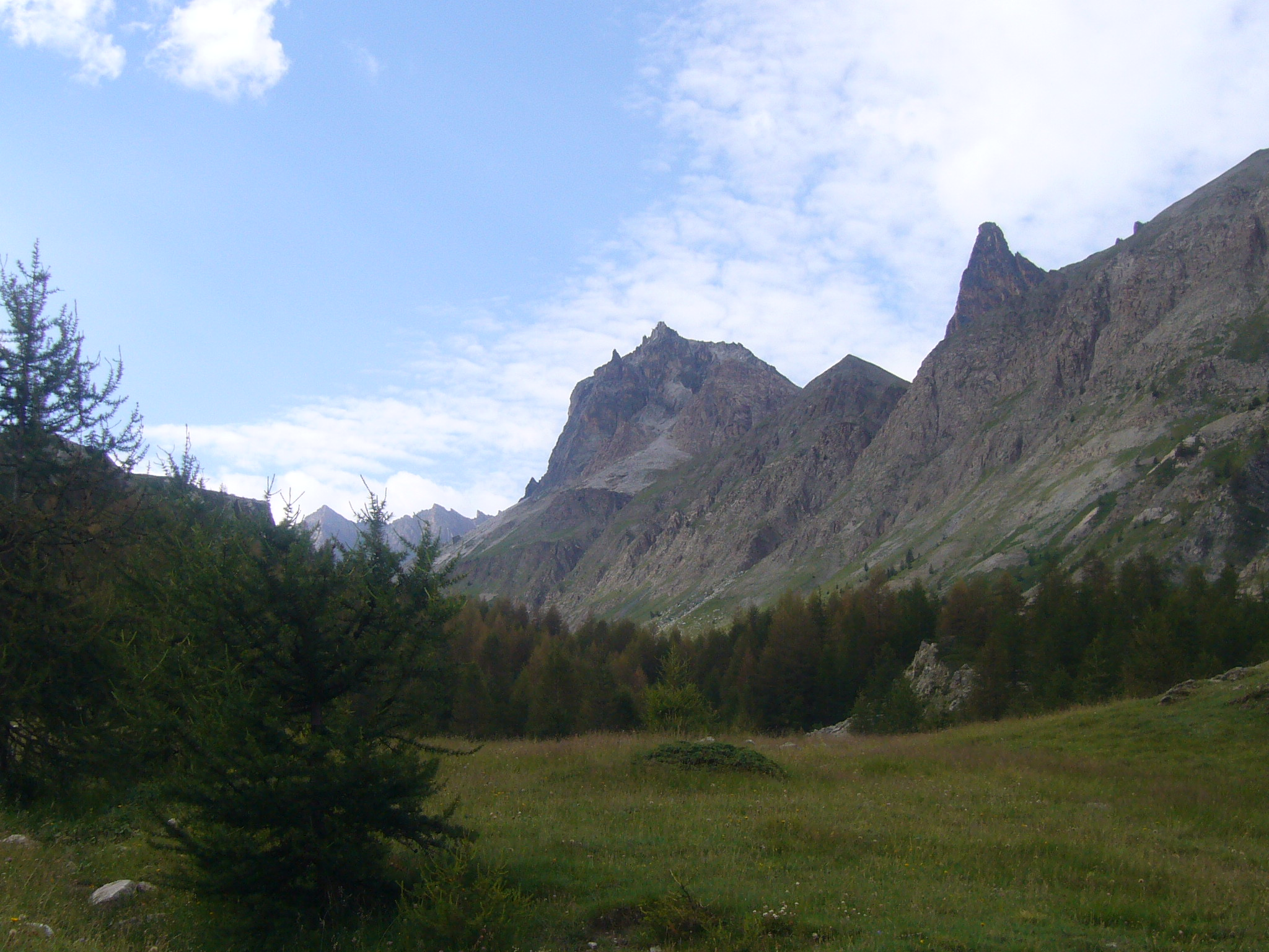 Massif de Chambeyron, French Alps. I took this photo in July 2006.